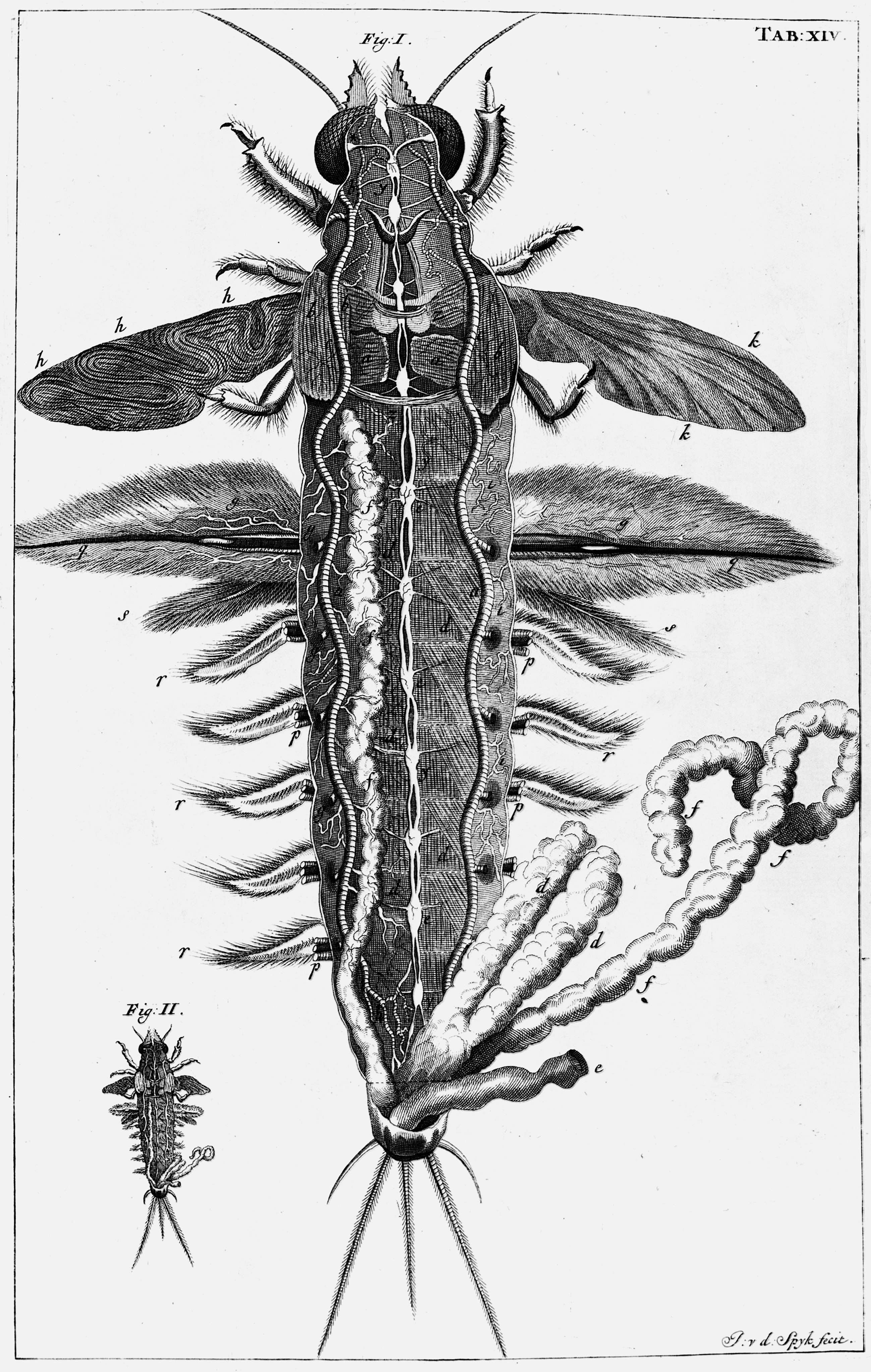 Biblia Naturae Dissection of the may-fly lava Rare Books Keywords: Zoology; Entomology; Jan Swammerdam; anatomy of insects